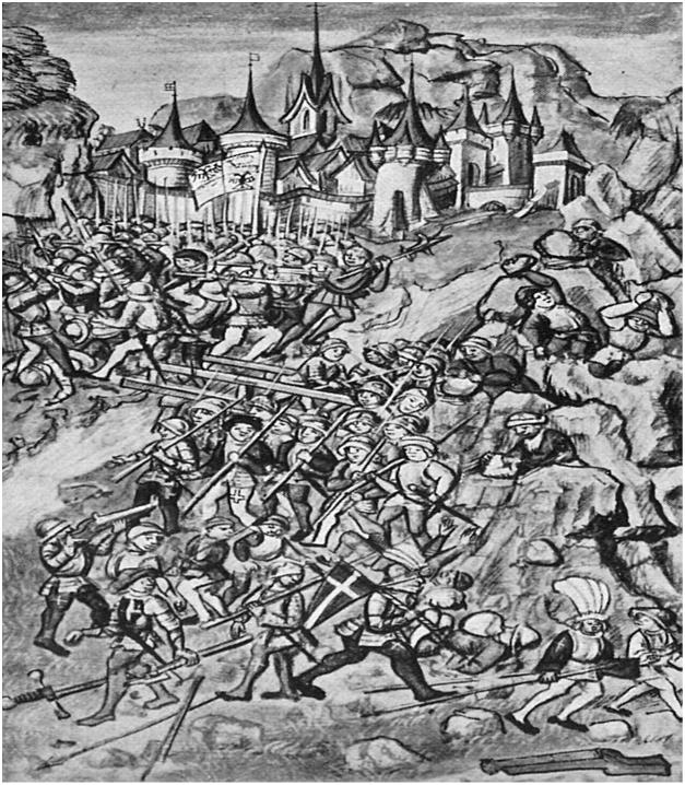 Darstellung der Schlacht bei Crevola aus der Luzerner Chronik (auch Luzerner Schilling genannt) von 1513.